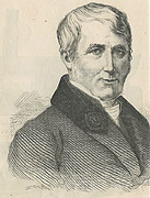 Samuel Owen, engineer, born i England 1774. Moved to Sweden around 1806-1807.